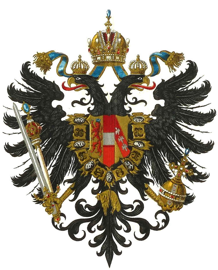 Small Arms of the Austrian Empire